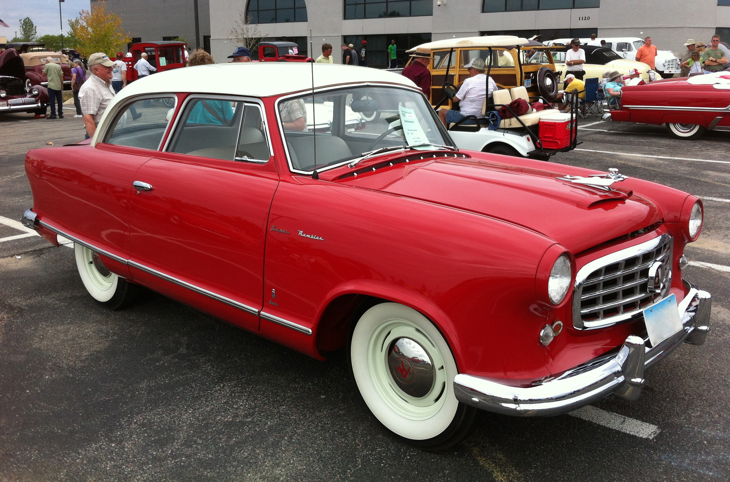 1955 Hudson Rambler 2-door sedan, a compact-sized car made by American Motors Corporation (AMC). An identical car was also marketed through Nash dealers (as the Nash Rambler). Picture taken at the 2012 Antique Automobile Club of America (AACA) Central Spring meet in Cedar Rapids, Iowa.